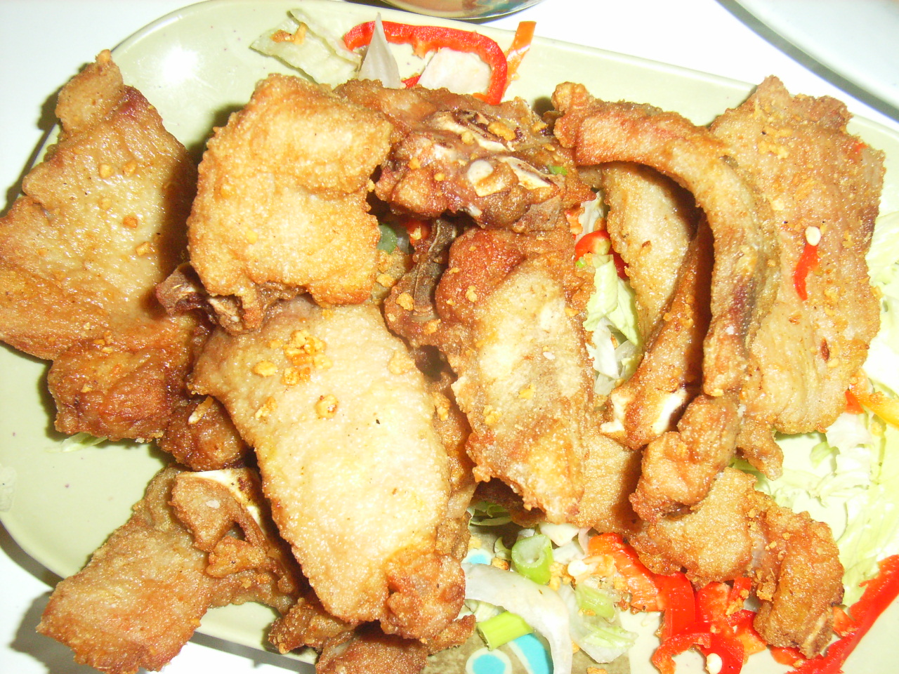 黃昏zh:晚飯於上環街市zh:上環熟食中心棟記飯店 油炸zh:豬扒